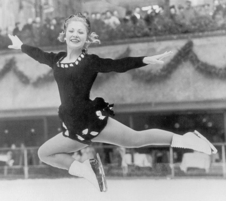 LD43 1949 Wire Photo EILEEN SEIGH Prima Skaterina Olympic Champion Figure Skater